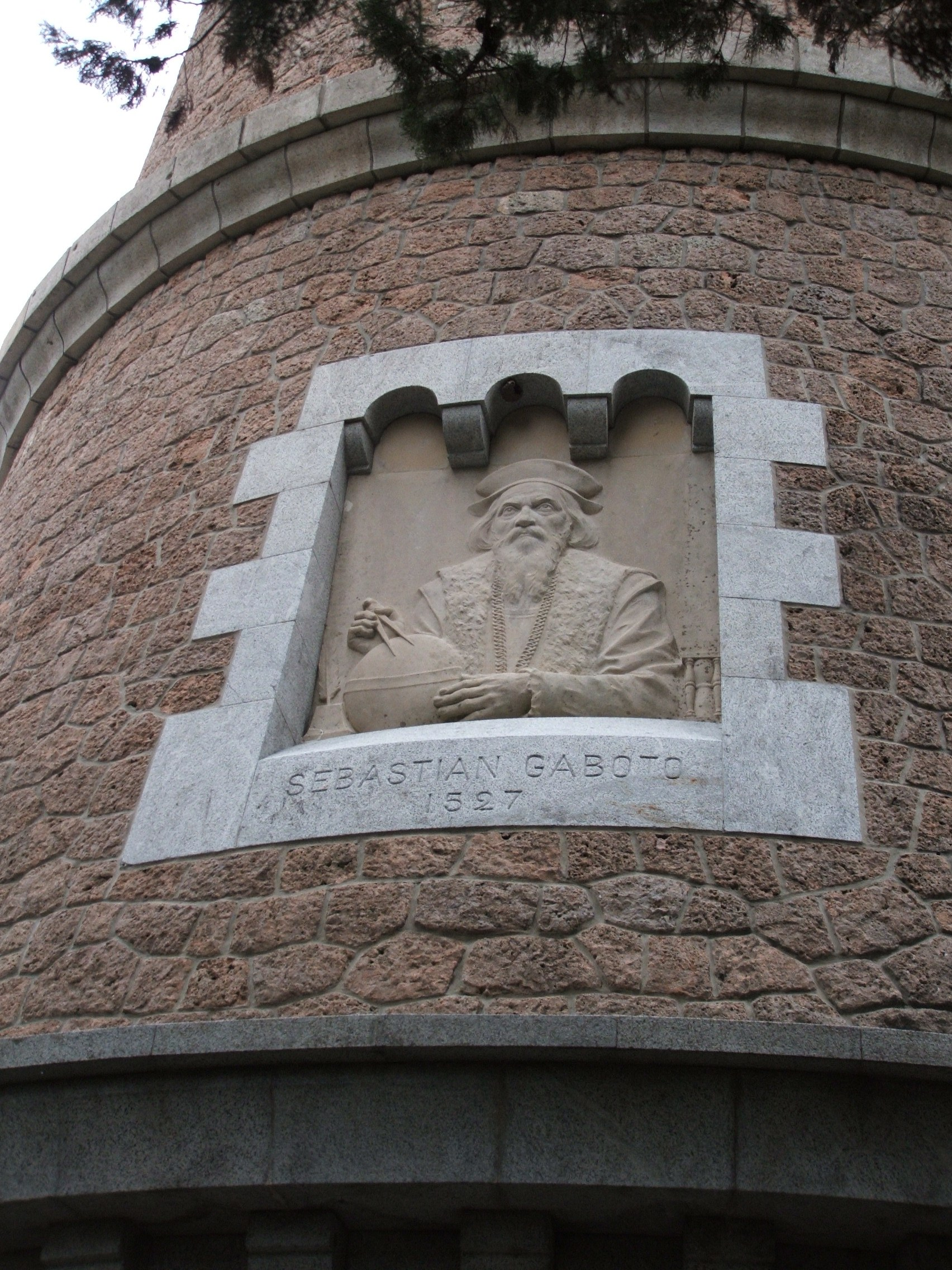 Image of Sebastian Cabot (Sebastián Gaboto), Anchorena Park, Colonia, Uruguay